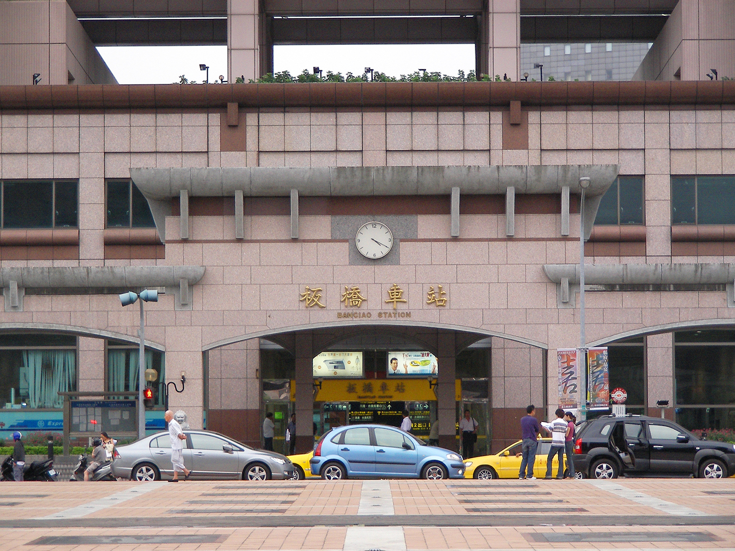 Banciao Station in New Taipei City, Taiwan.